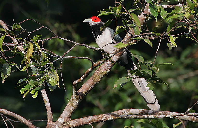 This fantastic bird is a range-restricted endemic confined to Sri Lanka's south-western rain forests. This is a male bird (note the dark iris). Image taken in the Sinharaja Rain Forest Reserve, Sri Lanka.